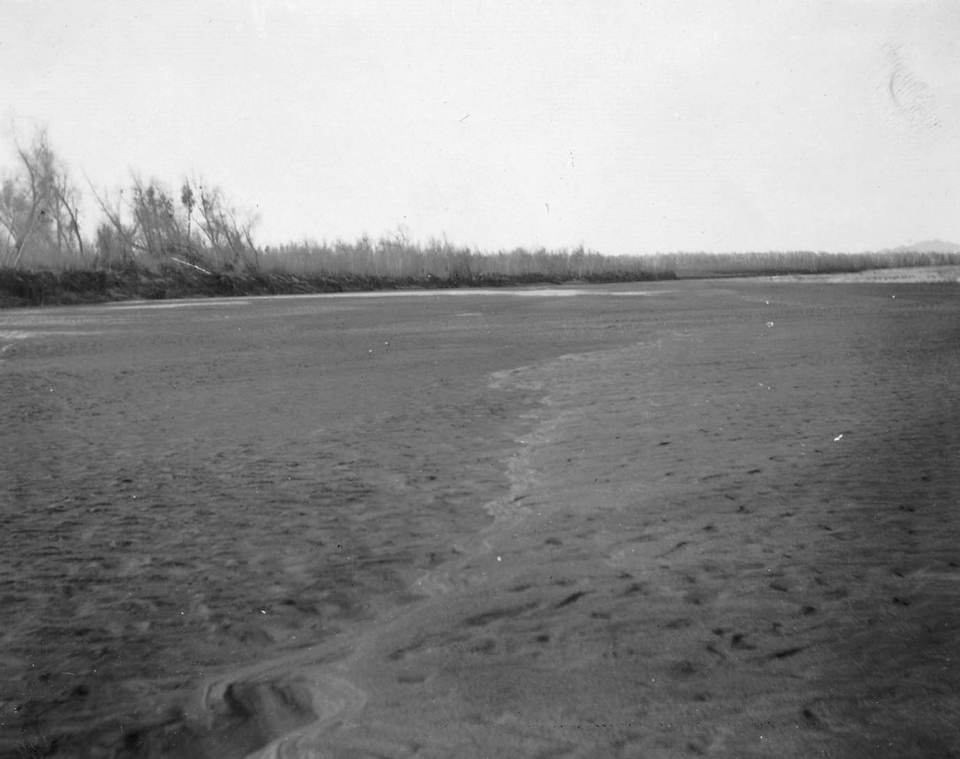 Yuma Project--Dry Bed of Colorado River Below Imperial Intake and Just Above Nigger Bend--River Diverted Into Imperial Canal